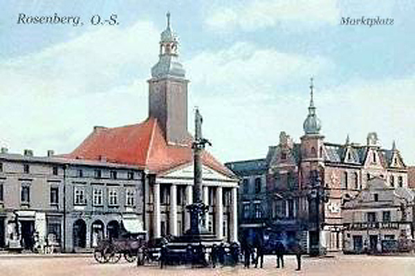 Rosenberg/Olesno/Poland, Town hall on Market Place